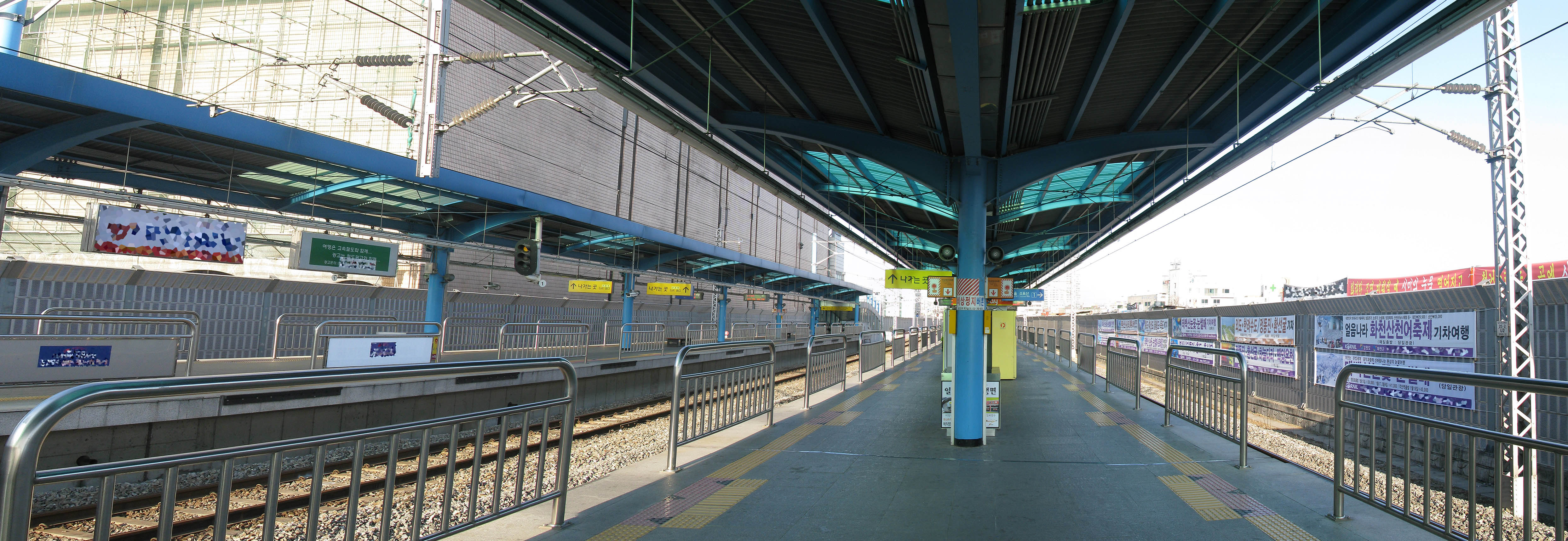 Gyeongin Line Dongincheon Station Platform (Incheon Direction)